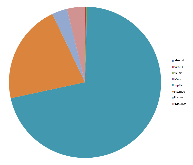 Pie chart of the masses of the Solar planets